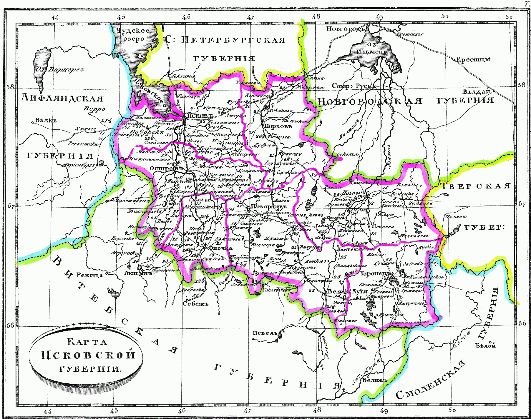 Map of Pskov Governorate, 1835